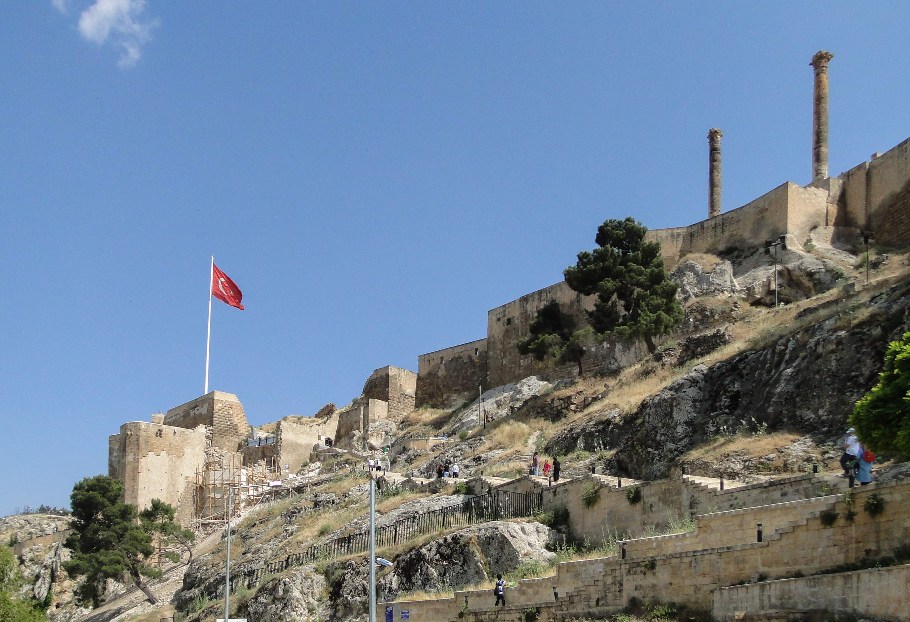 Urfa Castle, Şanlıurfa, Turkey